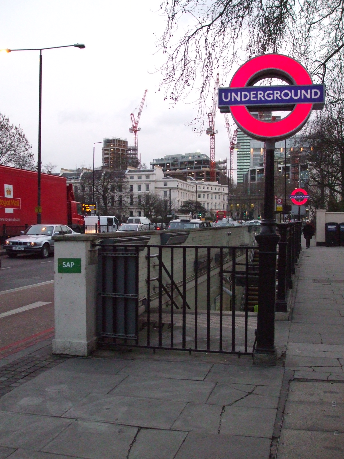 Regent's Park tube station entrance looking east